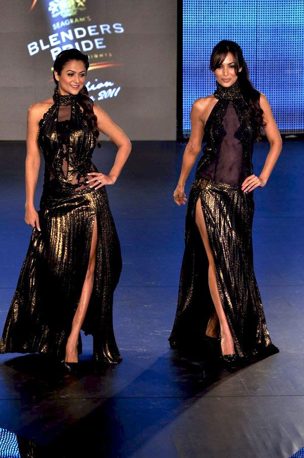 Malaika-Amrita walk the ramp for Mandira Wirk at Day 3 of the Blenders Pride Fashion Tour 2011 held at Taj Lands End, Bandra, Mumbai